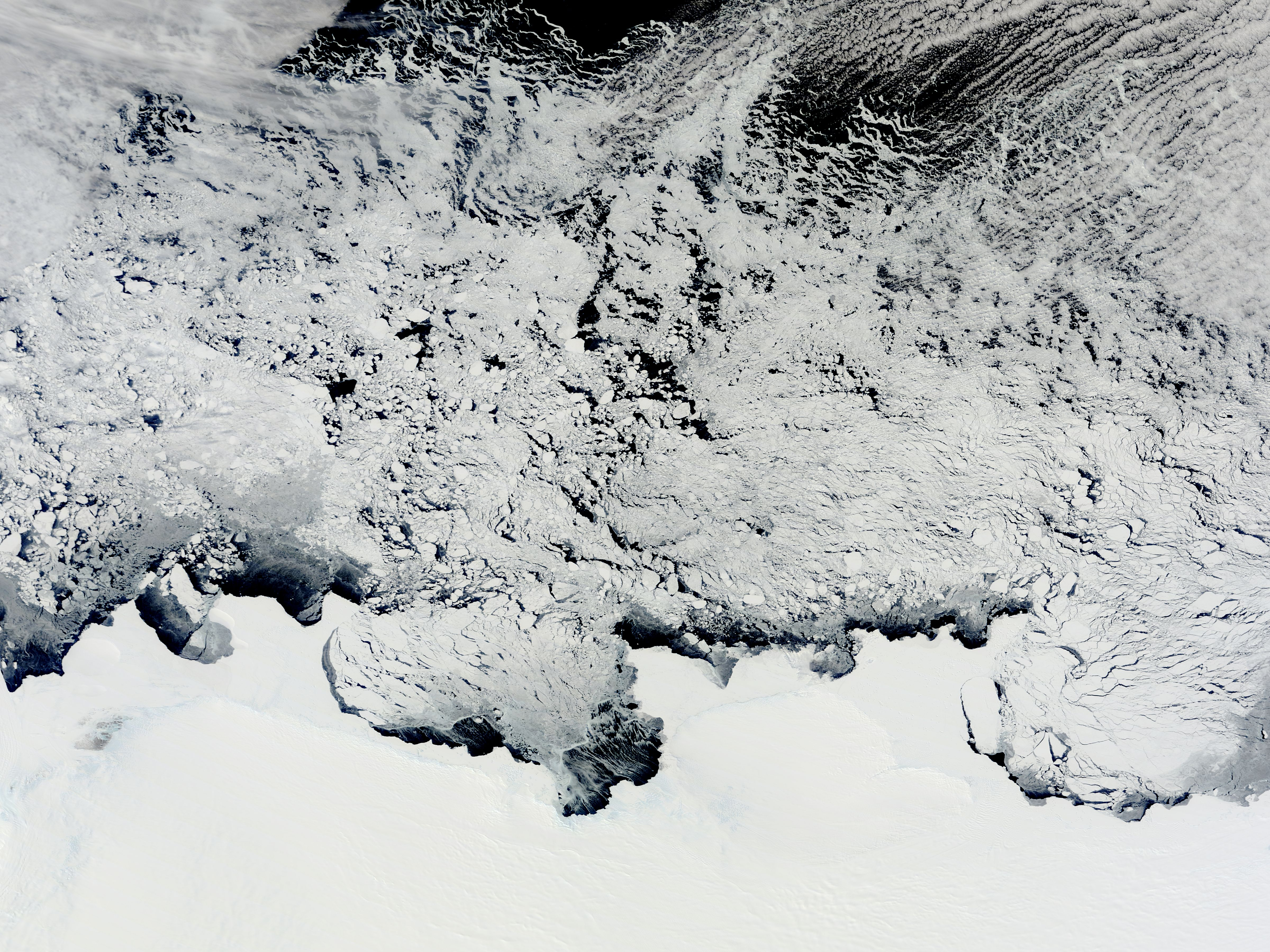 NASA image acquired November 2, 2011 The Moderate Resolution Imaging Spectroradiometer (MODIS) instrument on NASA's Terra satellite captured this image of the Knox, Budd Law Dome, and Sabrina Coasts, Antarctica on November 2, 2011 at 01:40 UTC (Nov. 1 at 9:40 p.m. EDT). Operation Ice Bridge is exploring Antarctic ice, and more information can be found at . Image Credit: NASA Goddard MODIS Rapid Response Team